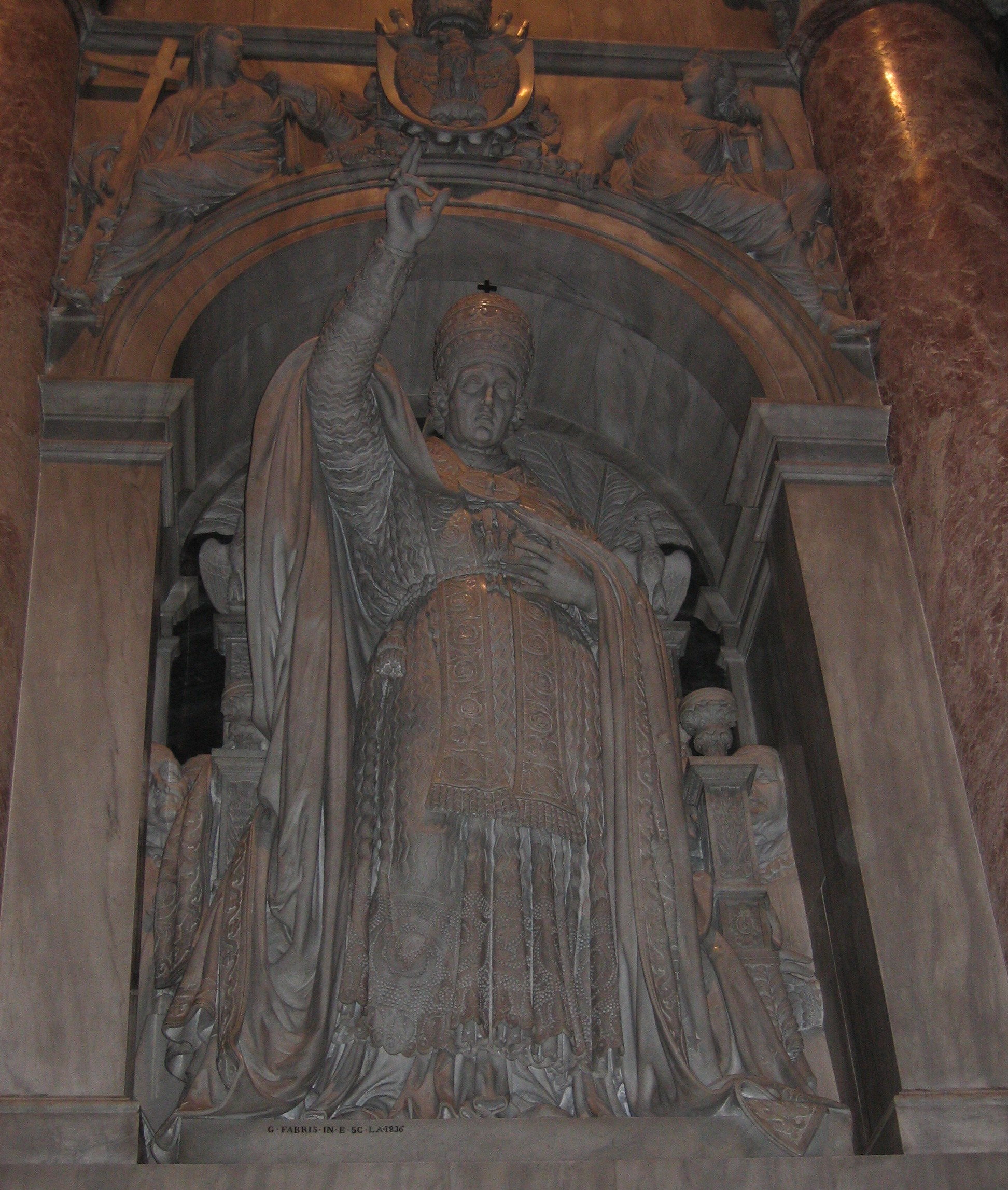 Monument of Pope Leo XII in St. Peter's Basilica, Sculptor Giuseppe de Fabris, 1836